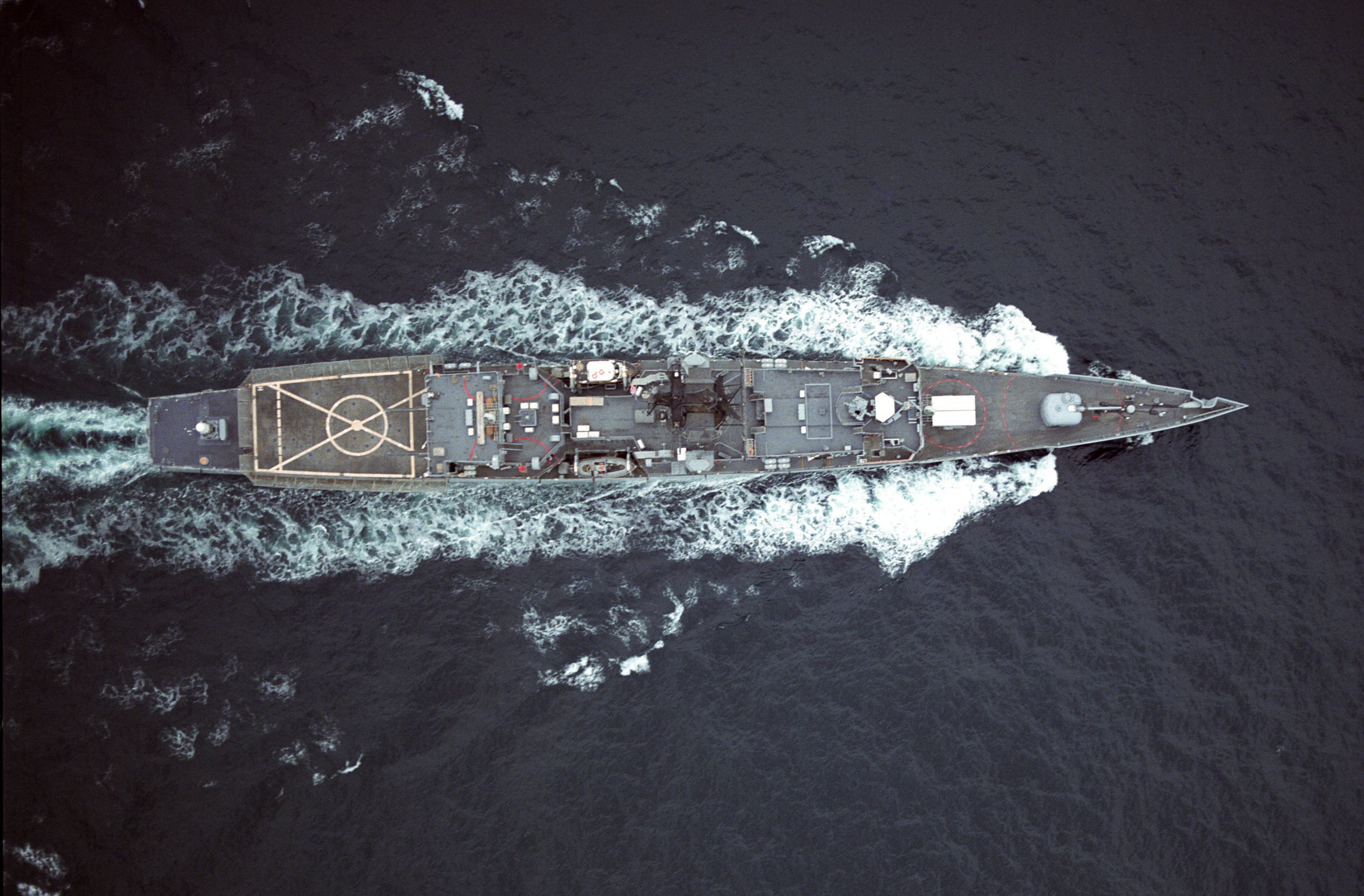 An aerial direct overhead view of the Knox Class Frigate USS FANNING (FF 1076) underway.